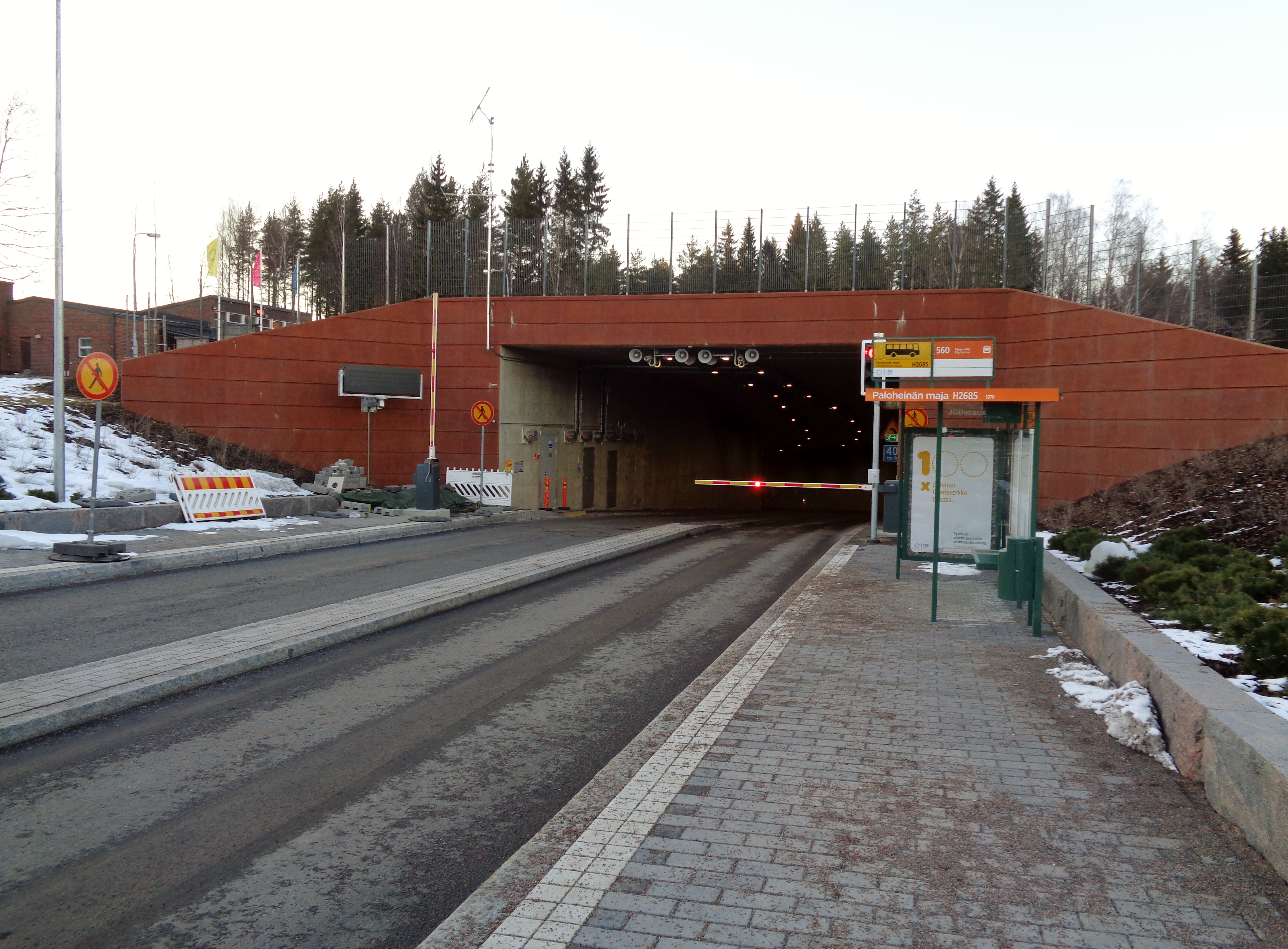 Southern portal of Paloheinä bus tunnel in Helsinki.